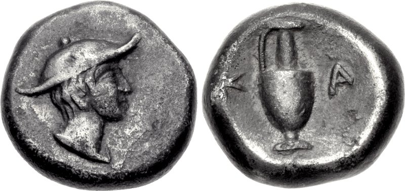 MACEDON, Kapsa. Late 5th-4th centuries BC. AR Diobol (10mm, 1.20 g, 5h). Head of Hermes right, wearing winged petasos One-handled lekythos